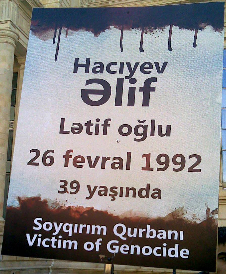 Khojaly 20